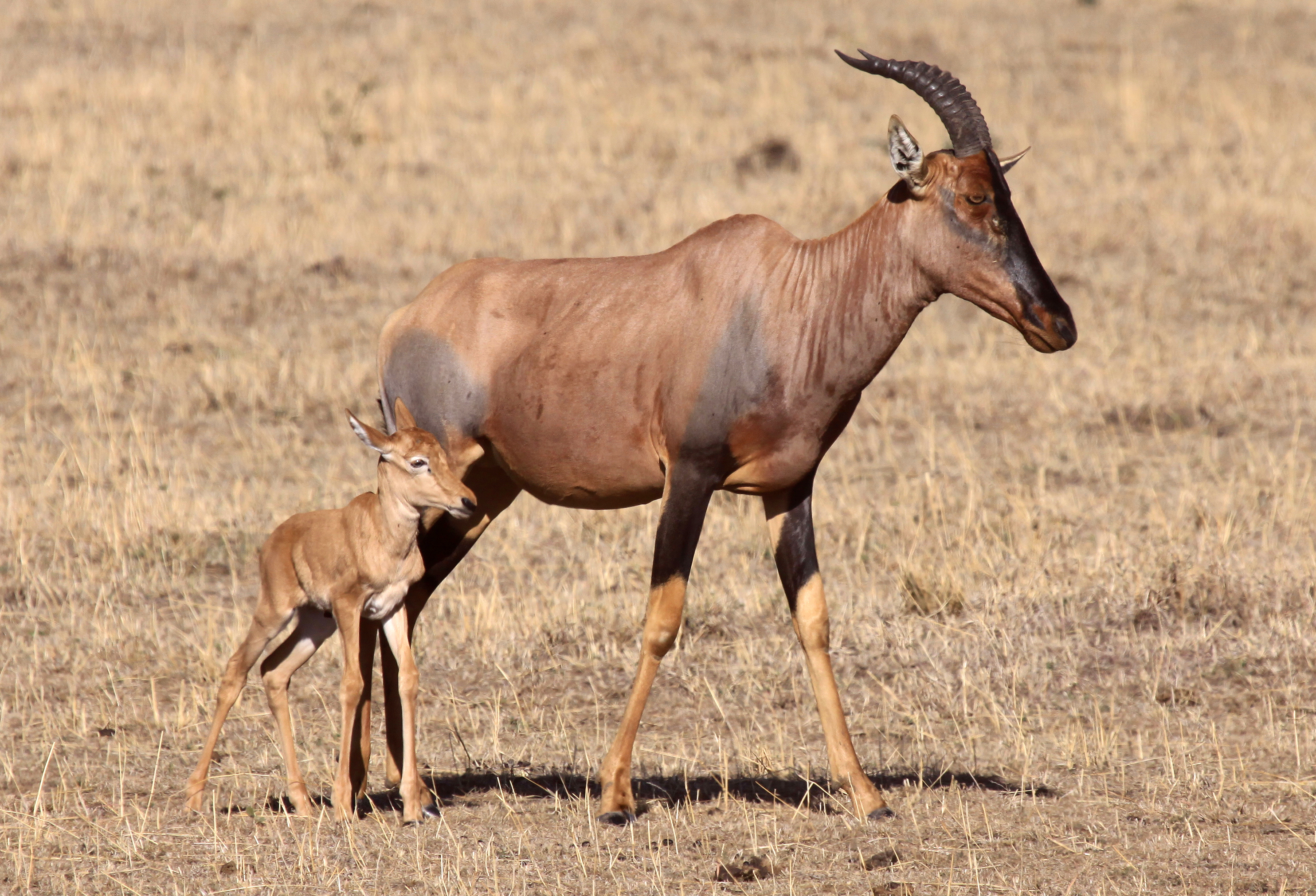 Topi (Damaliscus korrigum), Masai Mara National Reserve, Kenya